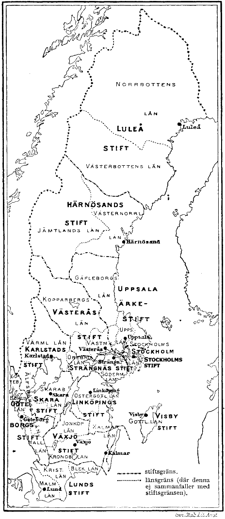 Sweden divided into Dioceses, 1907